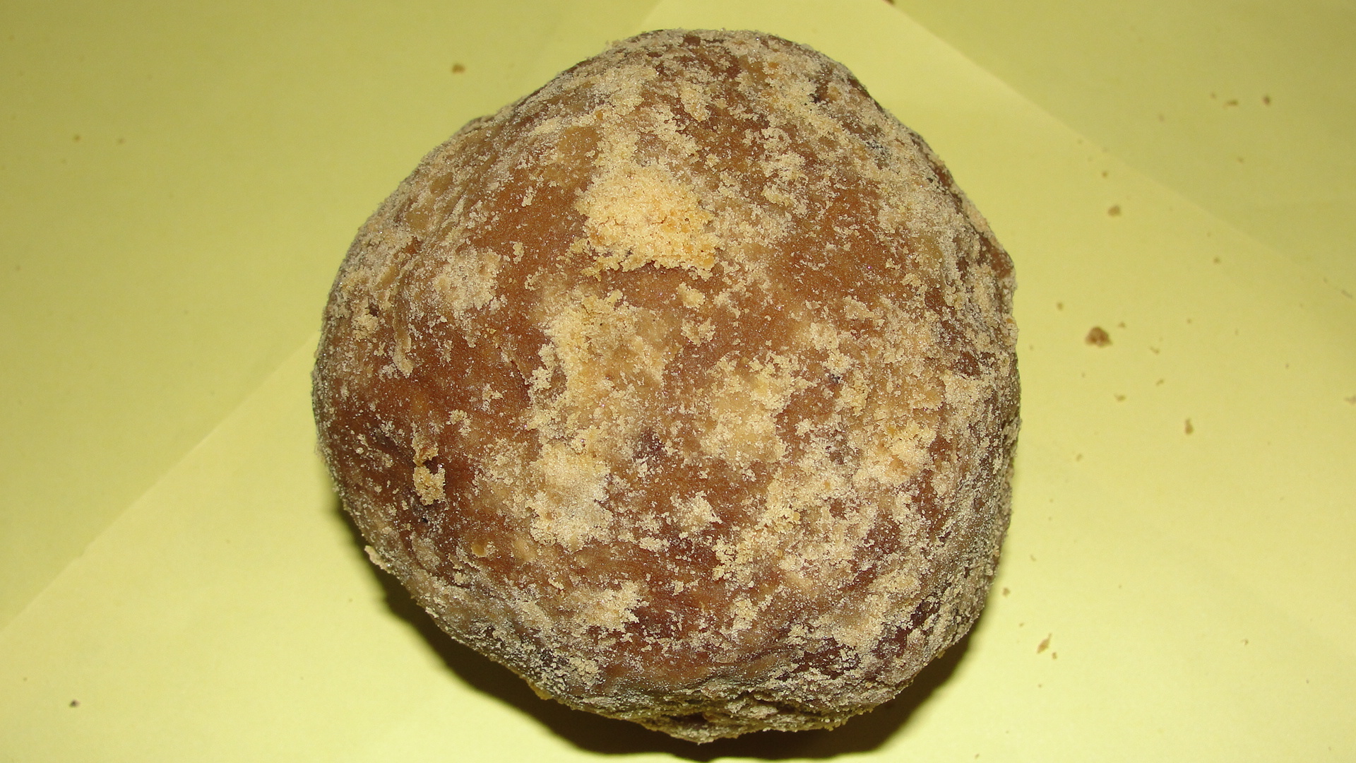 A Jaggery